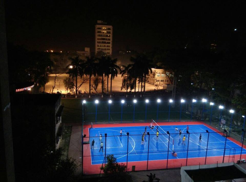 Pidilite Pavilion is used in ICT for variety of sports, including Tennis, Kabbadi and Basketball.